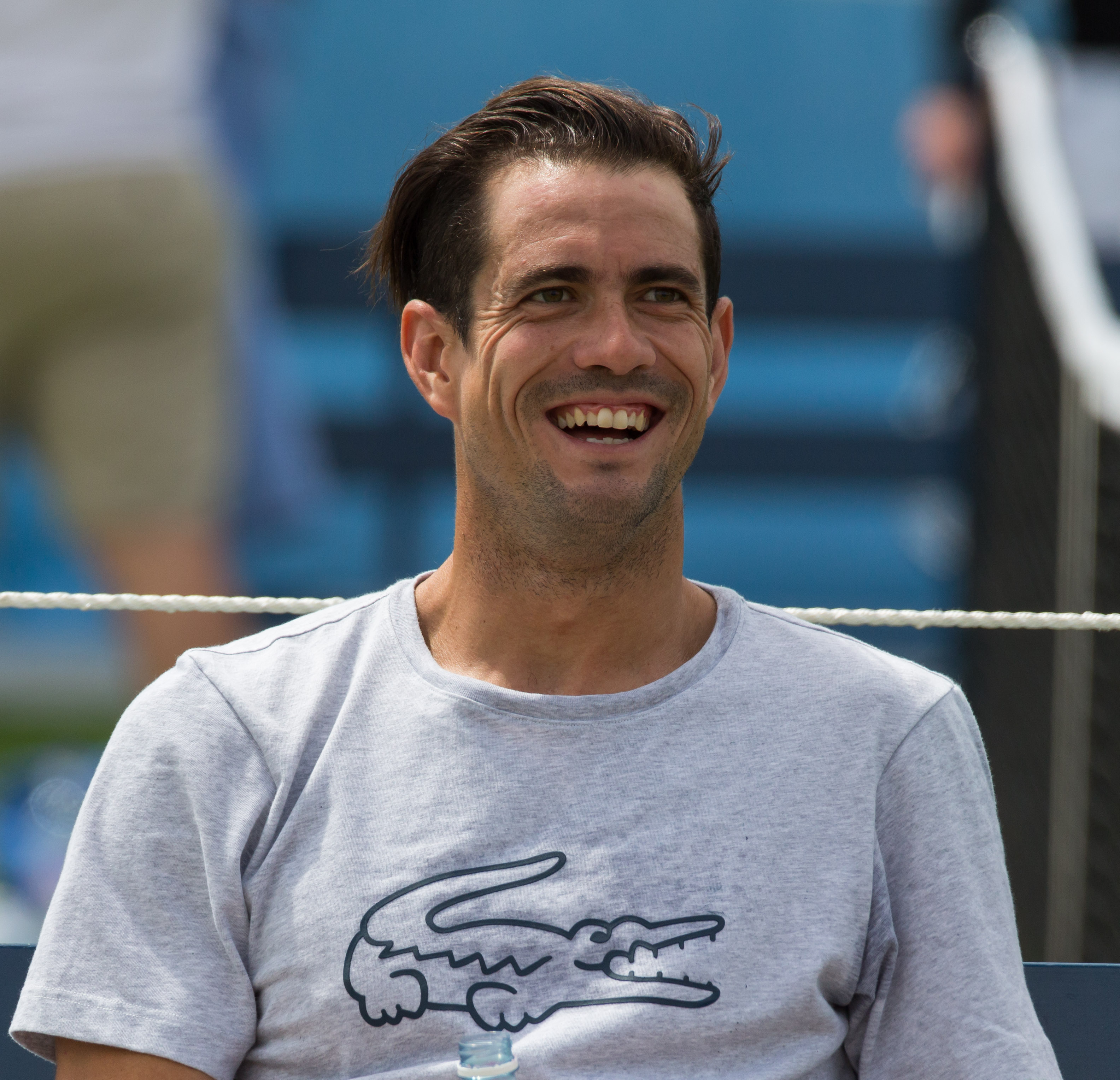 Guillermo García-López during practice at the Queens Club Aegon Championships in London, England.